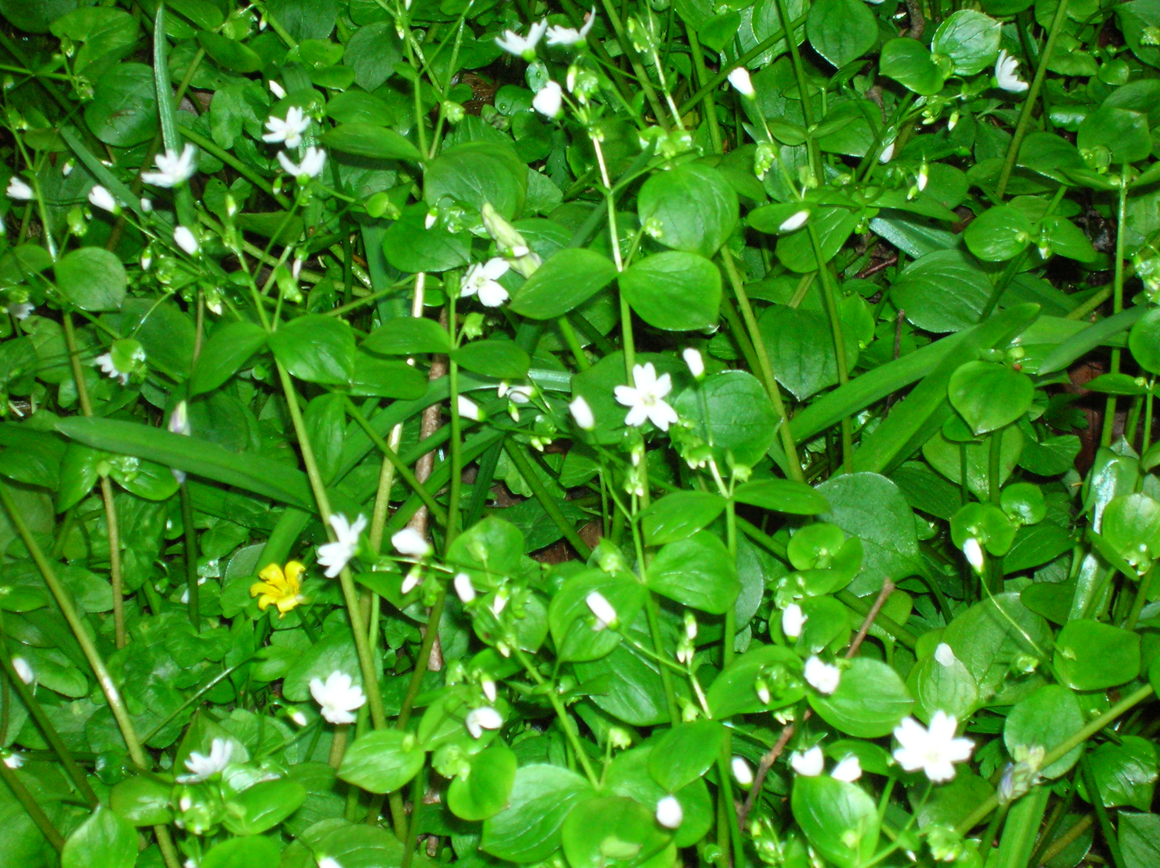 The Stewarton Flower or Pink Purslane. Claytonia or Montia sibirica. A seriously destructive alien of UK 'wet' woodlands. Woodlands on the Burn Anne near Galston, East Ayrshire, Scotland. 2007. Rosser 19:23, 25 April 2007 (UTC)